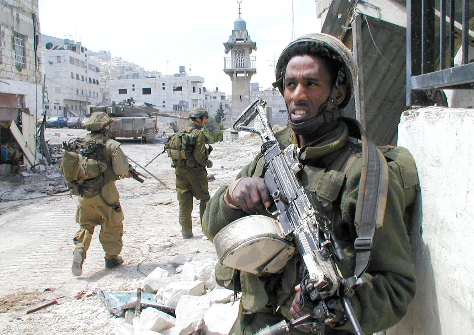 soldier stands guard during an operational activity in Nablus.